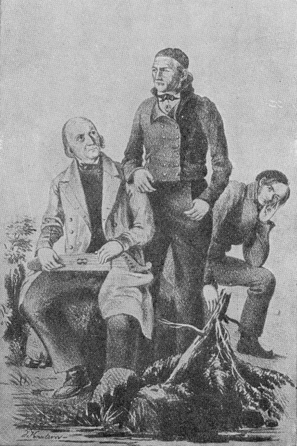 Olli Kymäläinen, Pietari Makkonen, and Antti Puhakka, Finnish folk poets.